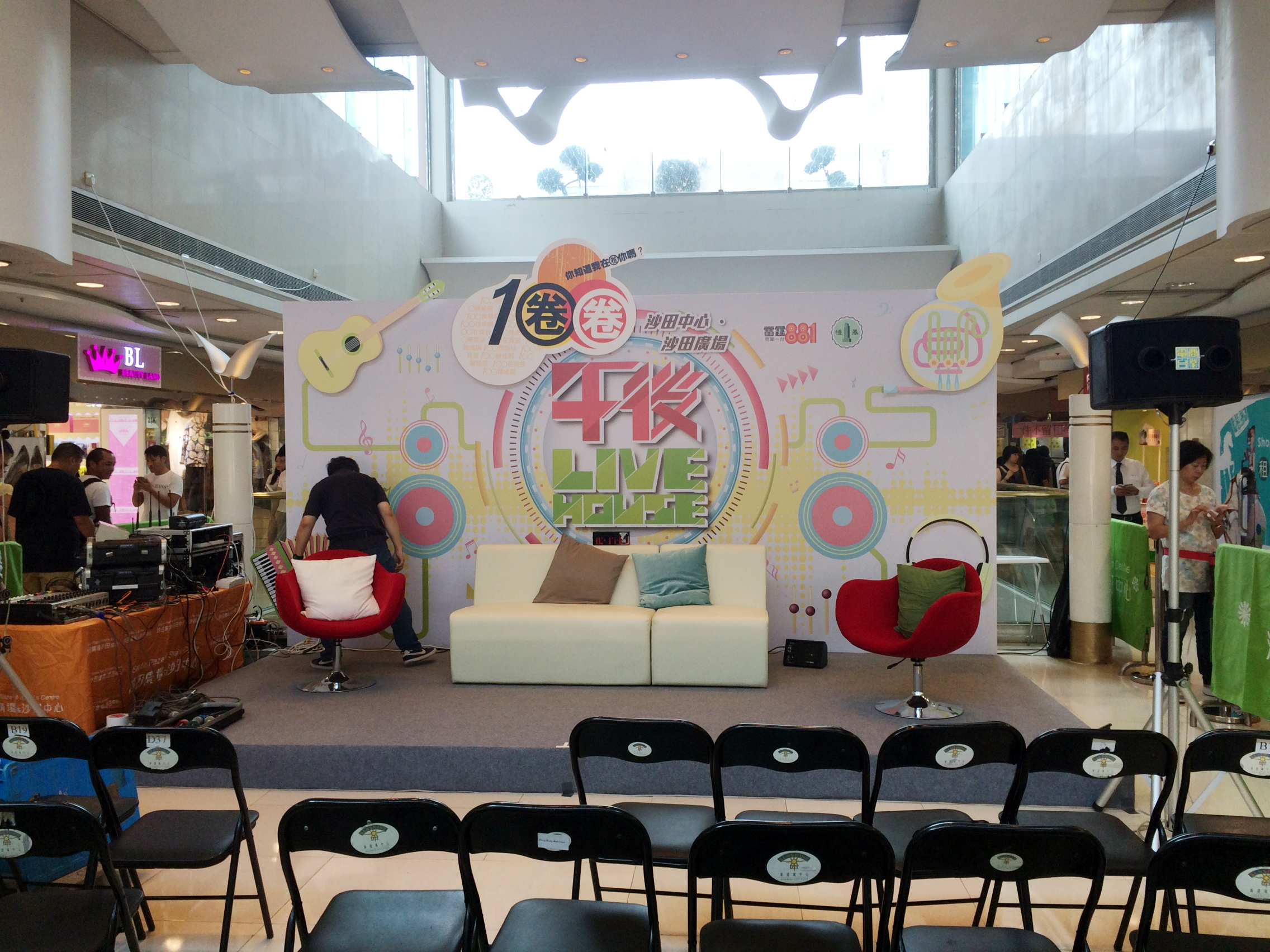 881903 Activities